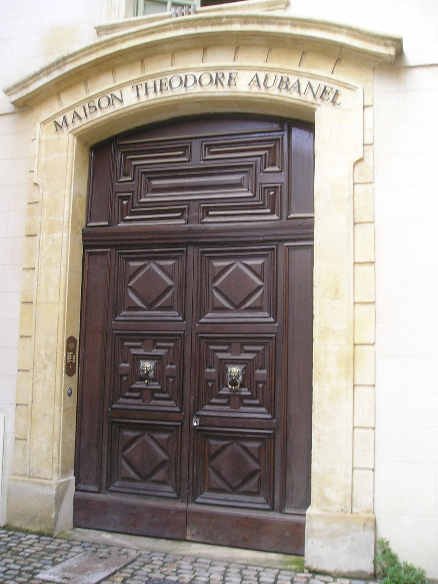 Front Door of maison aubanel avignon